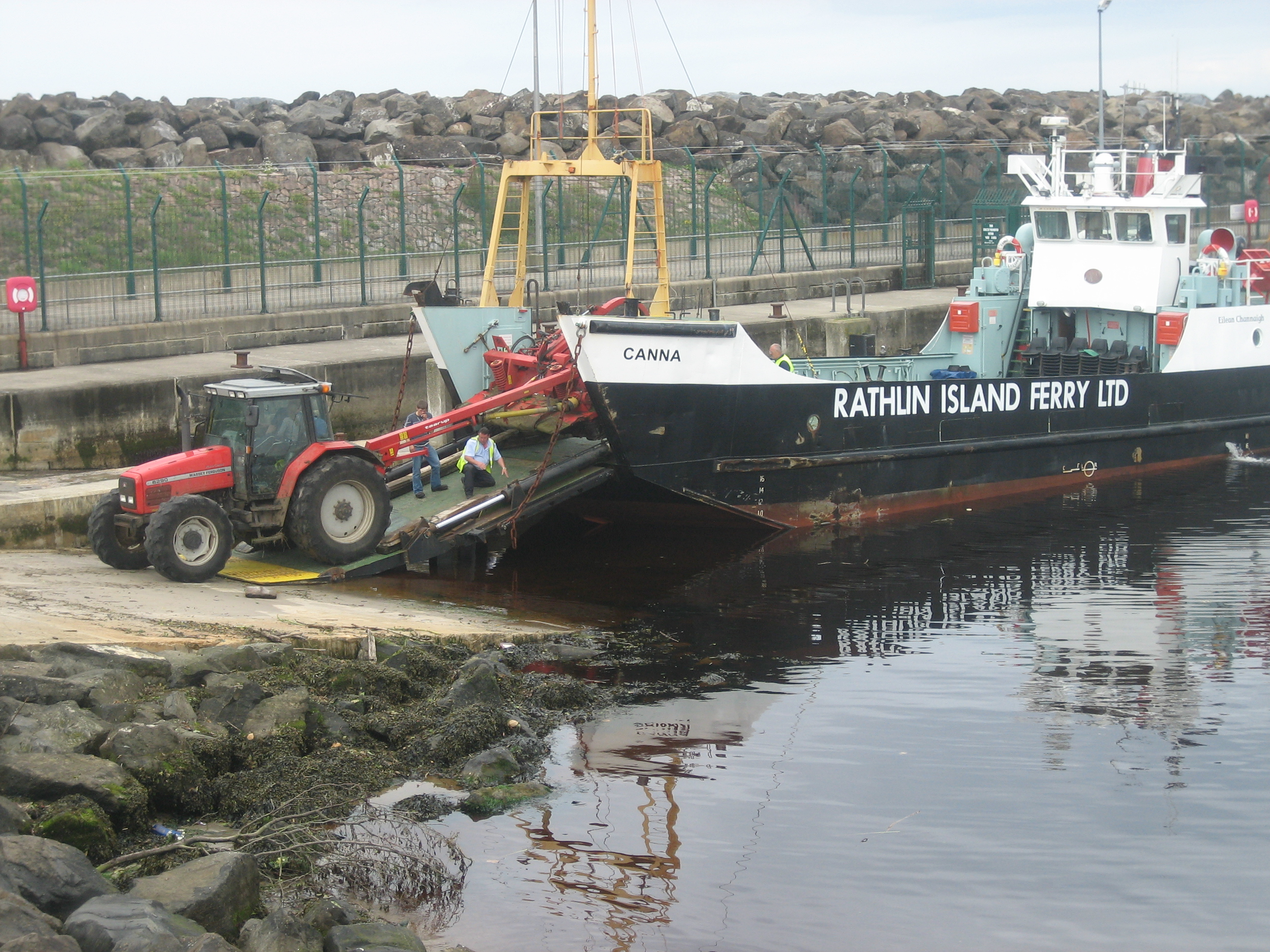 MV Canna, Rathlin Island ferry at Ballycastle, County Antrim, Northern Ireland. Massey Ferguson 6290 tractor with a Taarup (Kverneland) mower